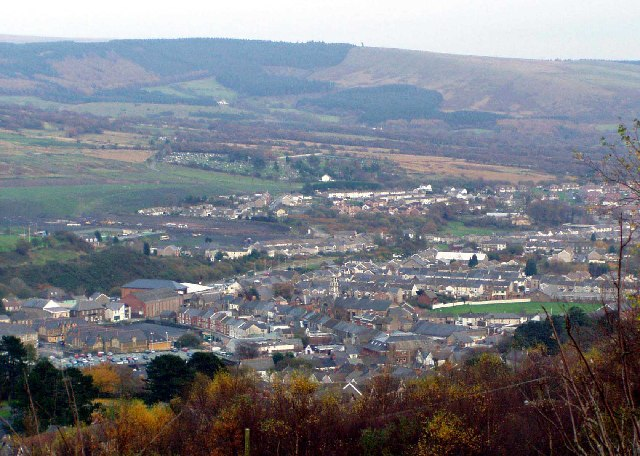 Maesteg General View